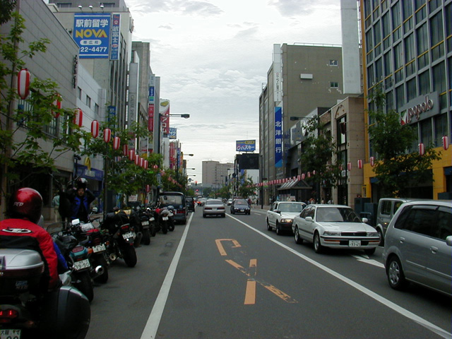 One of the main streets of Obihiro, Hokkaido, Japan during the summer. This photo was uploaded by the photographer and can also be seen at on the photographer's website.